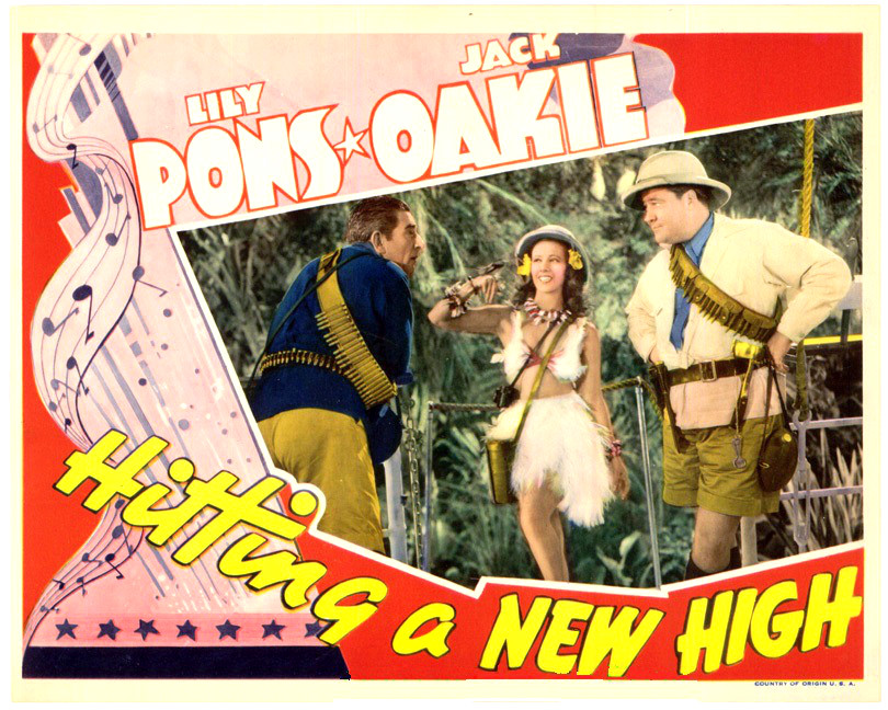 Lobby card for the 1937 film Hitting a New High. The item has no copyright markings on it as can be seen in the links above. At bottom right is Country of origin USA.